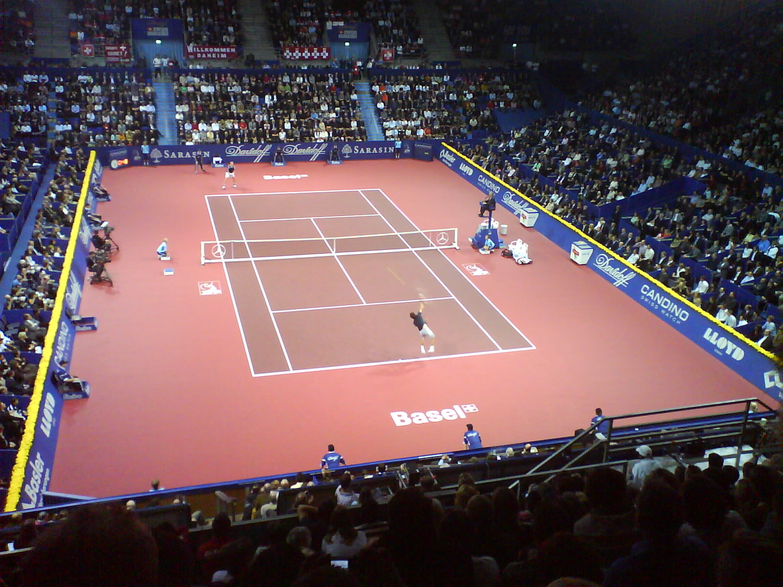 Roger Federer playing at Davidoff Indoors Basel, Switzerland